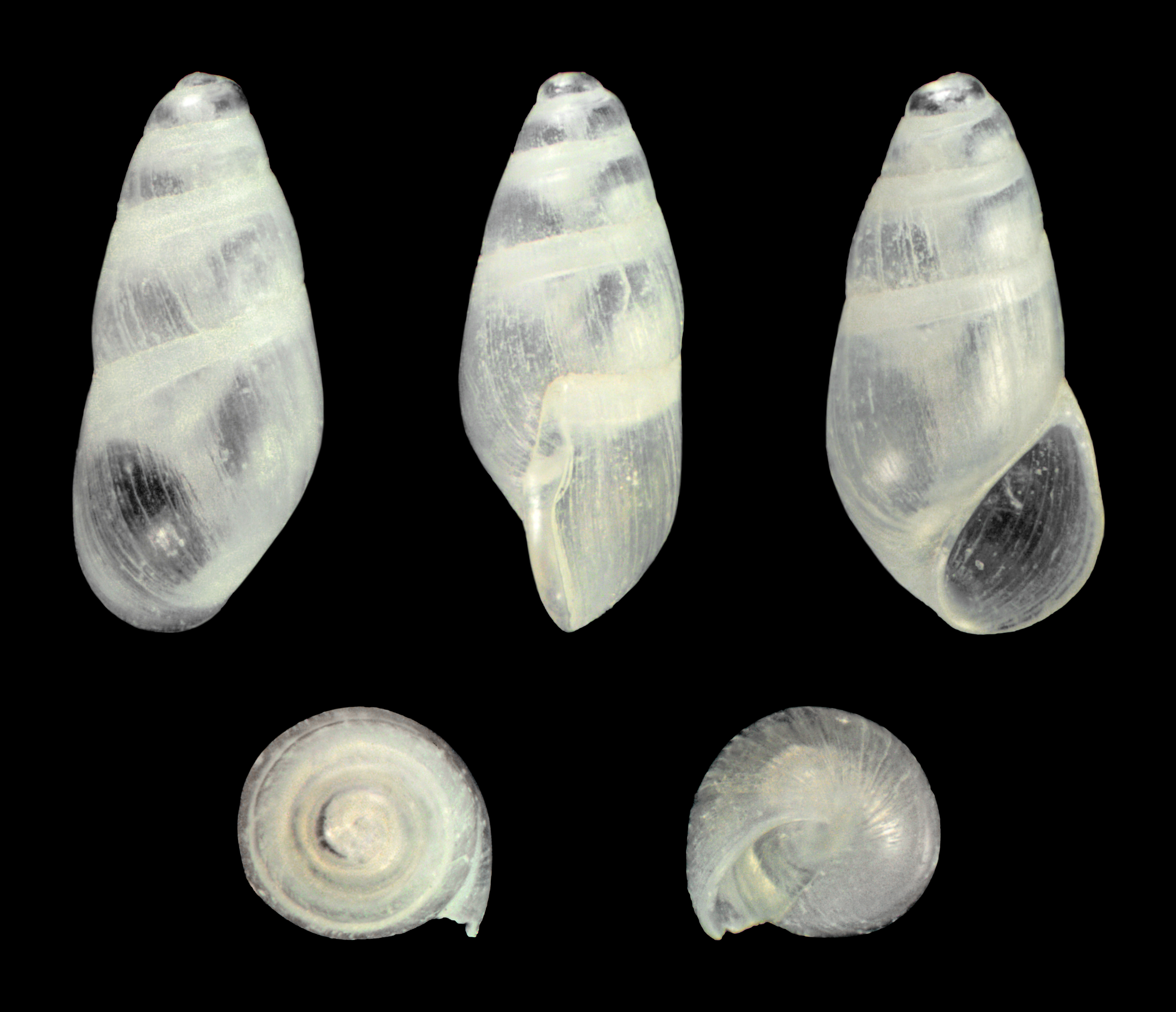 Botryphallus epidauricus (Brusina, 1866) ; Length 0.16 cm; Originating from the Playa de San Telmo, Puerto de la Cruz, Tenerife, Canary Islands, Spain 28°25′3.09″N 16°32′47.94″W / 28.417525°N 16.54665°W; Shell of own collection, therefore not geocoded. Dorsal, lateral (right side), ventral, back, and front view.